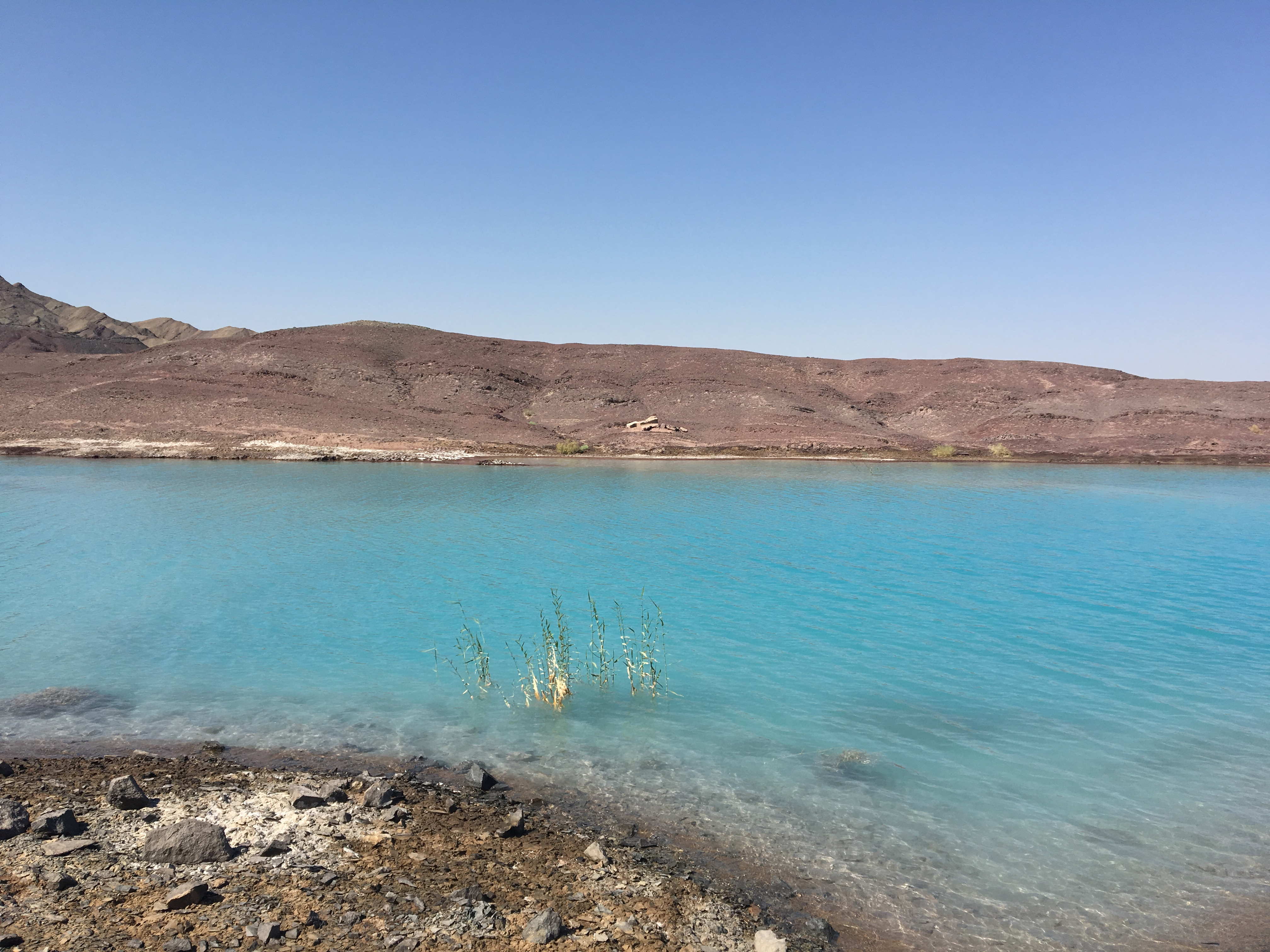 Saindak Chemical Lake